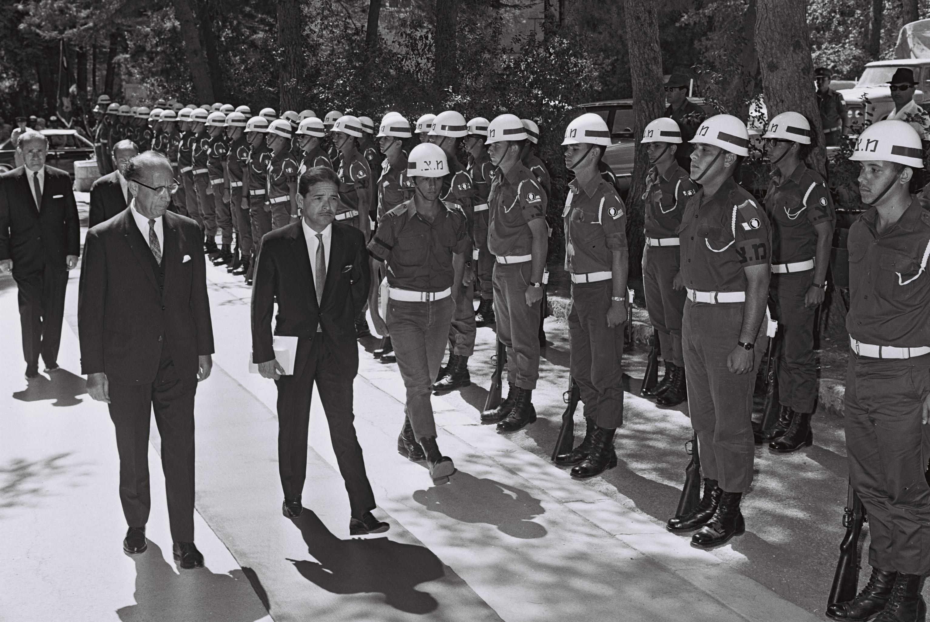 Elio V. Ortiz arriving at Beit HaNassi to present his credentials as ambassador of Panama to president Zalman Shazar.